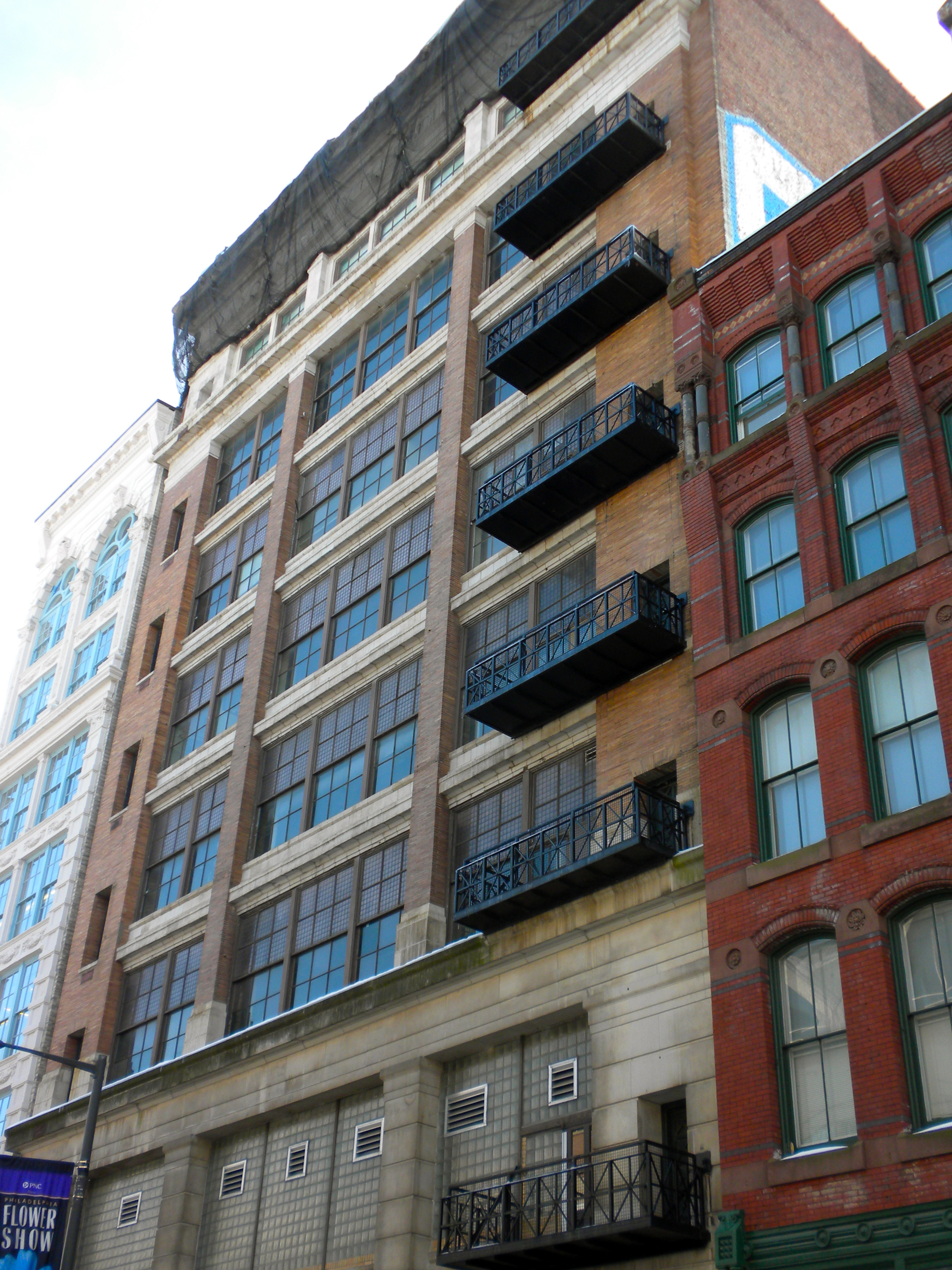 1216-1220 Arch Street Philadelphia, known as Smyth Young Field Company Building . On NRHP since December 24, 1992 in Chinatown neighborhood of Center City, Philadelphia, PA. Note building next door at 1222 is also on NRHP and I have mistakenly given a photo of it the Smyth Young name.